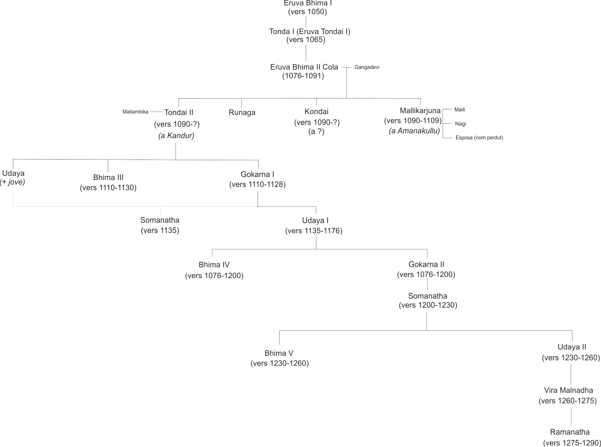 Genealogy (Chola of Kandur dynasty)